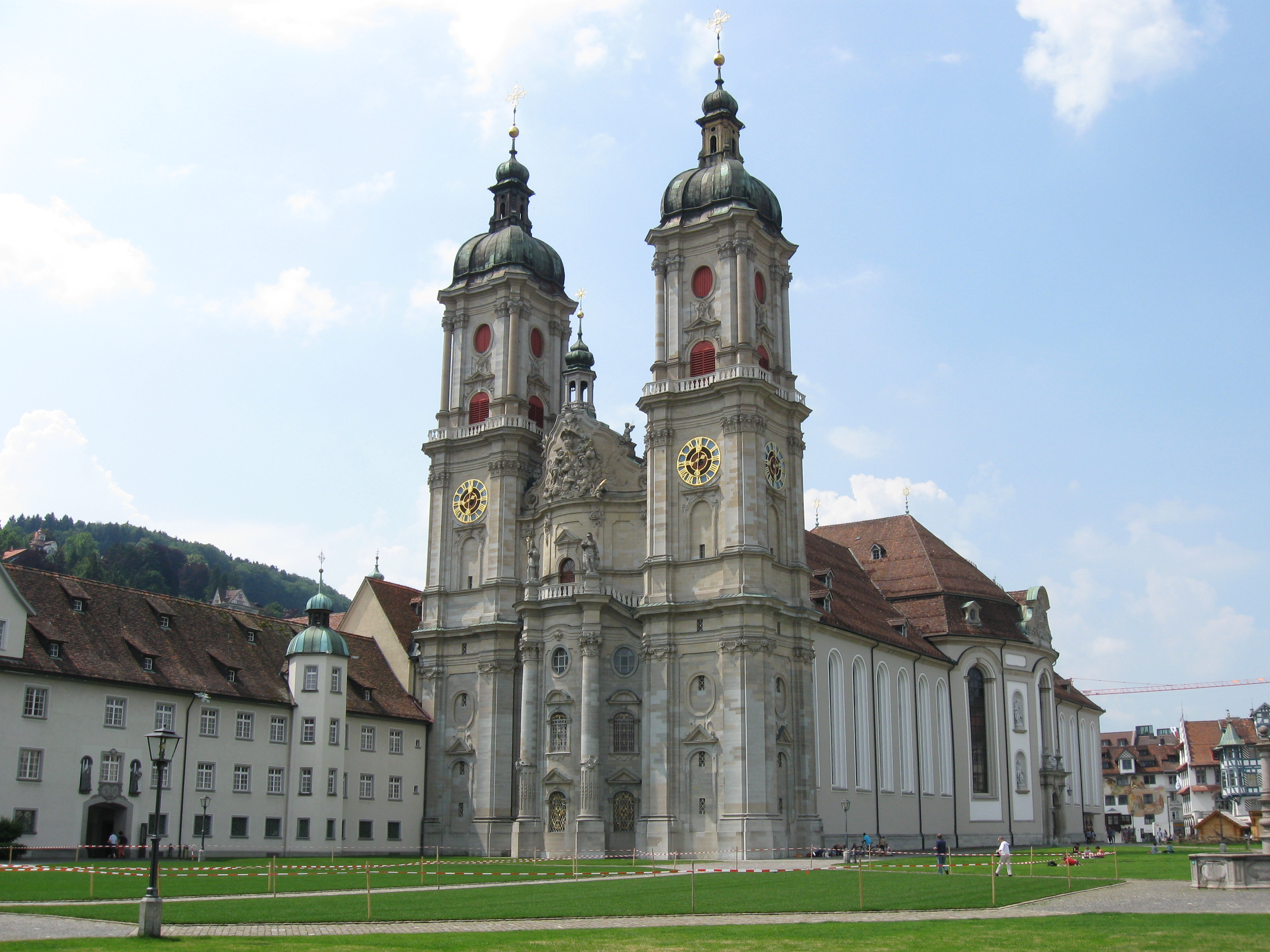 Unesco World Heritage collegiate church in St. Gallen